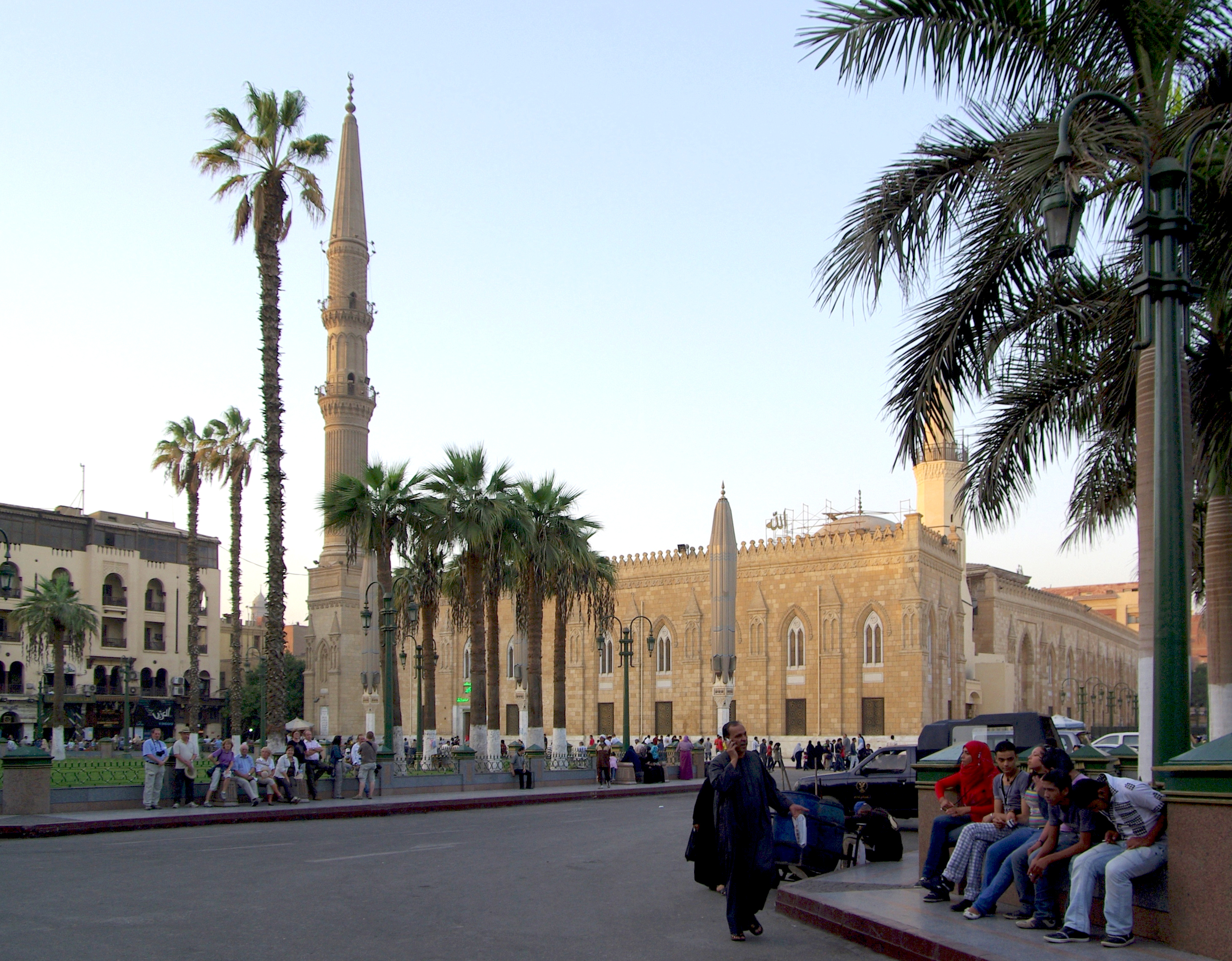 Cairo, Al Hussein Mosque